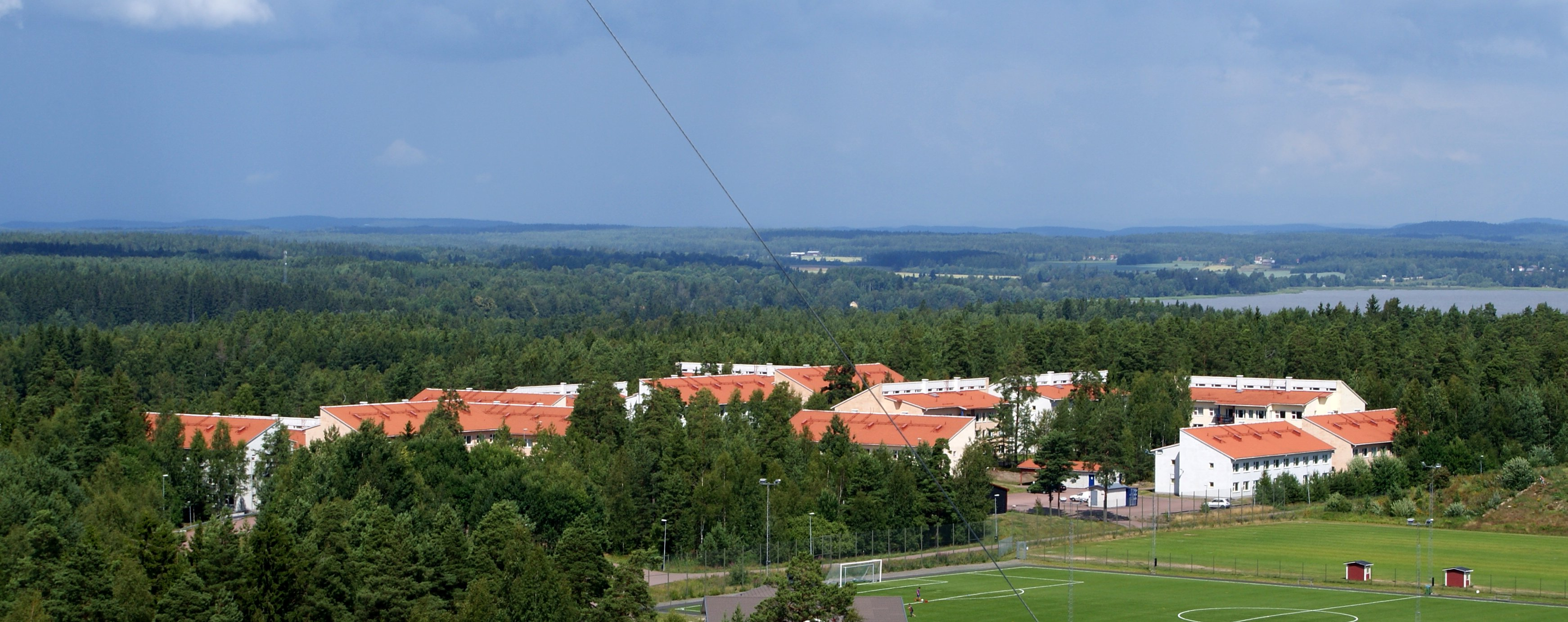 Campus Futurum, the campus next to Karlstad university in Karlstad, Sweden